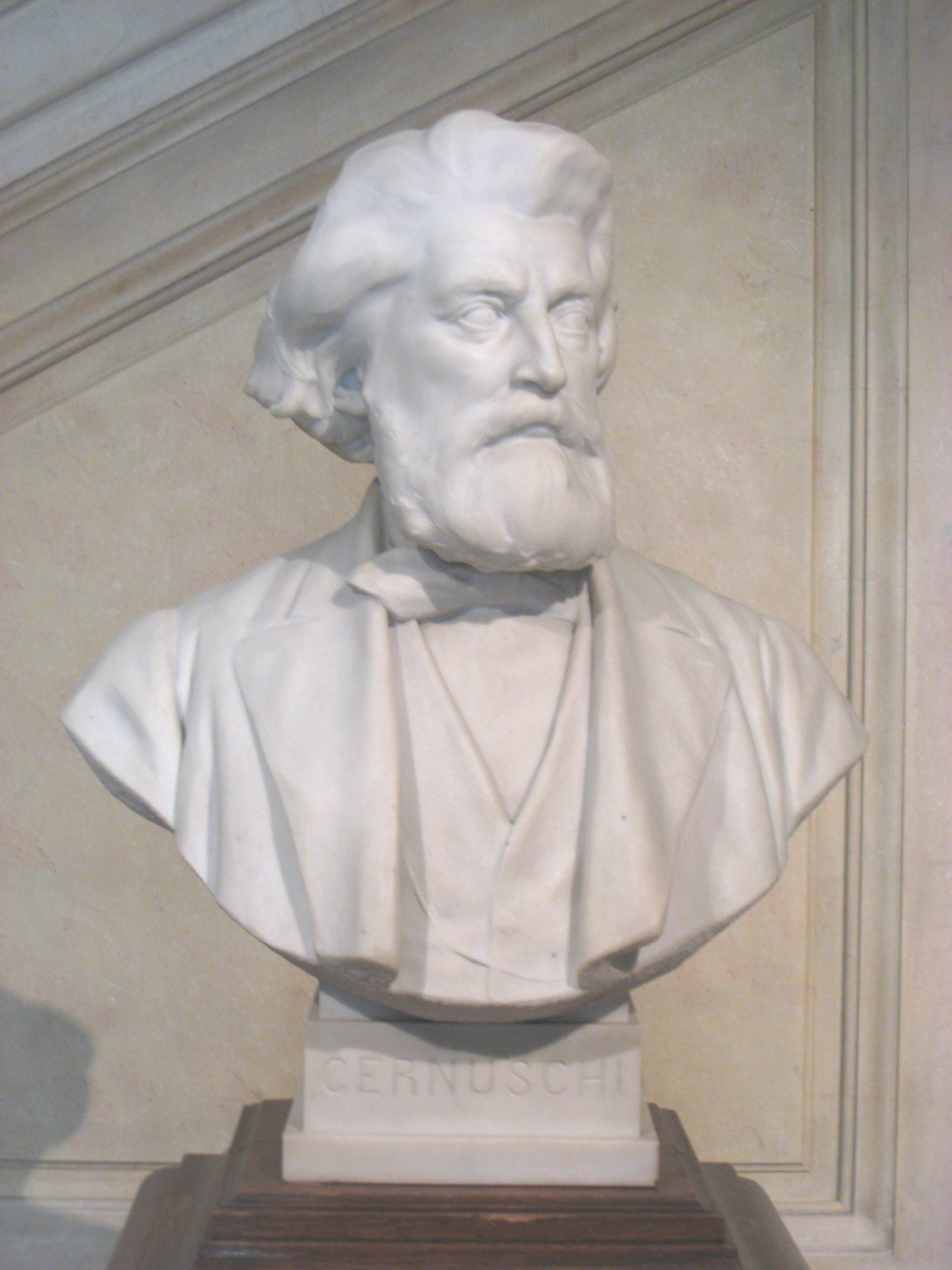 Musée Cernuschi, Paris, France - Bust of Henri Cernuschi (1821-1896), artist unknown. The original work is old enough so that copyright (if any) has long since expired. The museum imposed no restrictions on photography (except prohibiting flash) in writing and when I explicitly asked; thus the original image appears free of copyright restrictions.